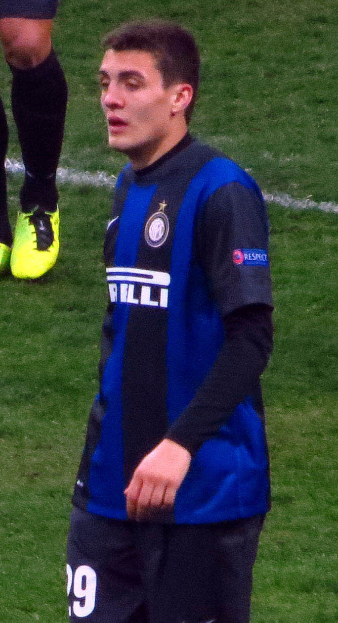 Mateo Kovacic playing for Inter.